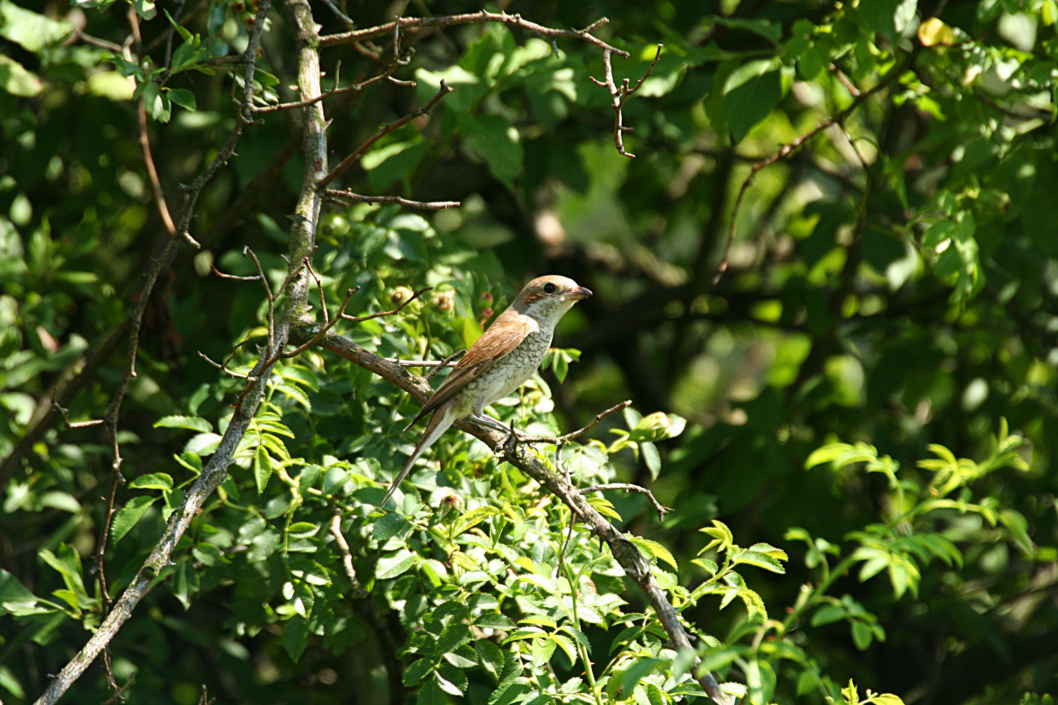 Red-backed Shrike (Lanius collurio)